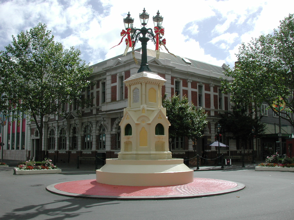 Watt Fountain in the Wanganui city centre (New Zealand), the old Post Office building is in the background. The fountain is listed with the New Zealand Historic Places Trust Register number: 1013.